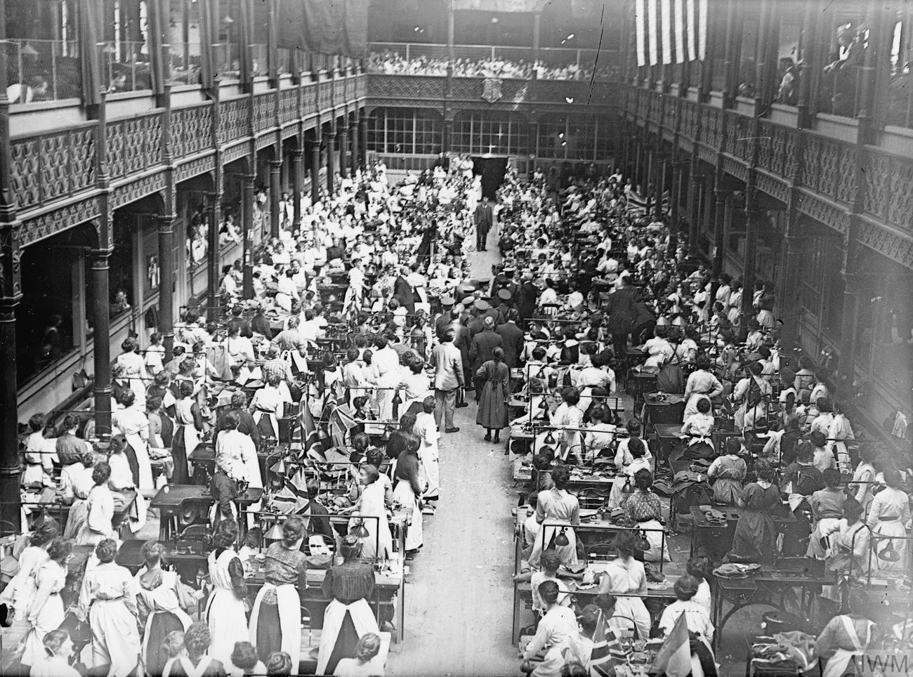 The Production of Clothing in Britain, 1914-1918 Royal visit by King George V and Queen Mary to the Royal Army Clothing Department on the 21st June 1918, Grosvenor Road, Pimlico.